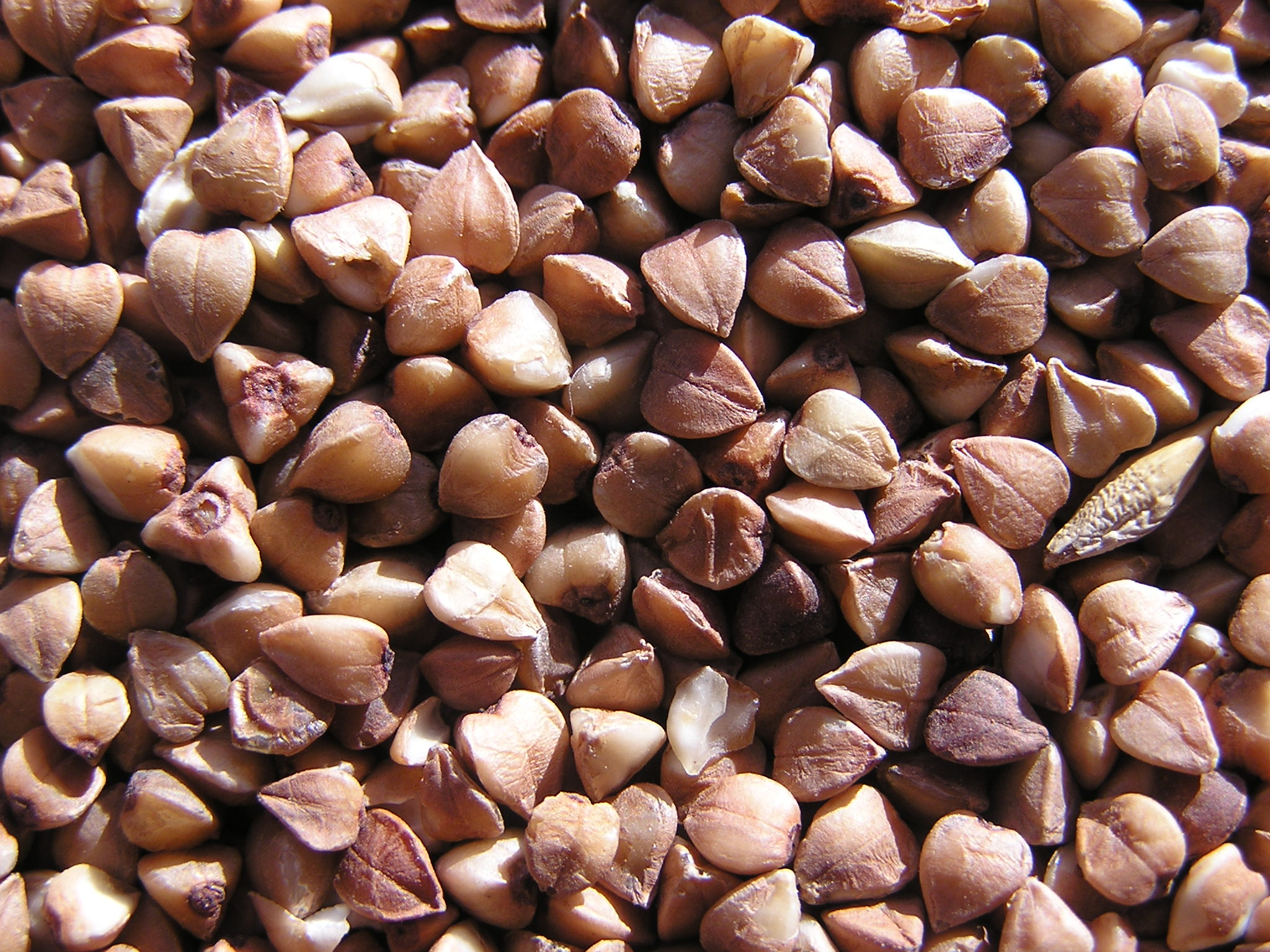 Buckwheat